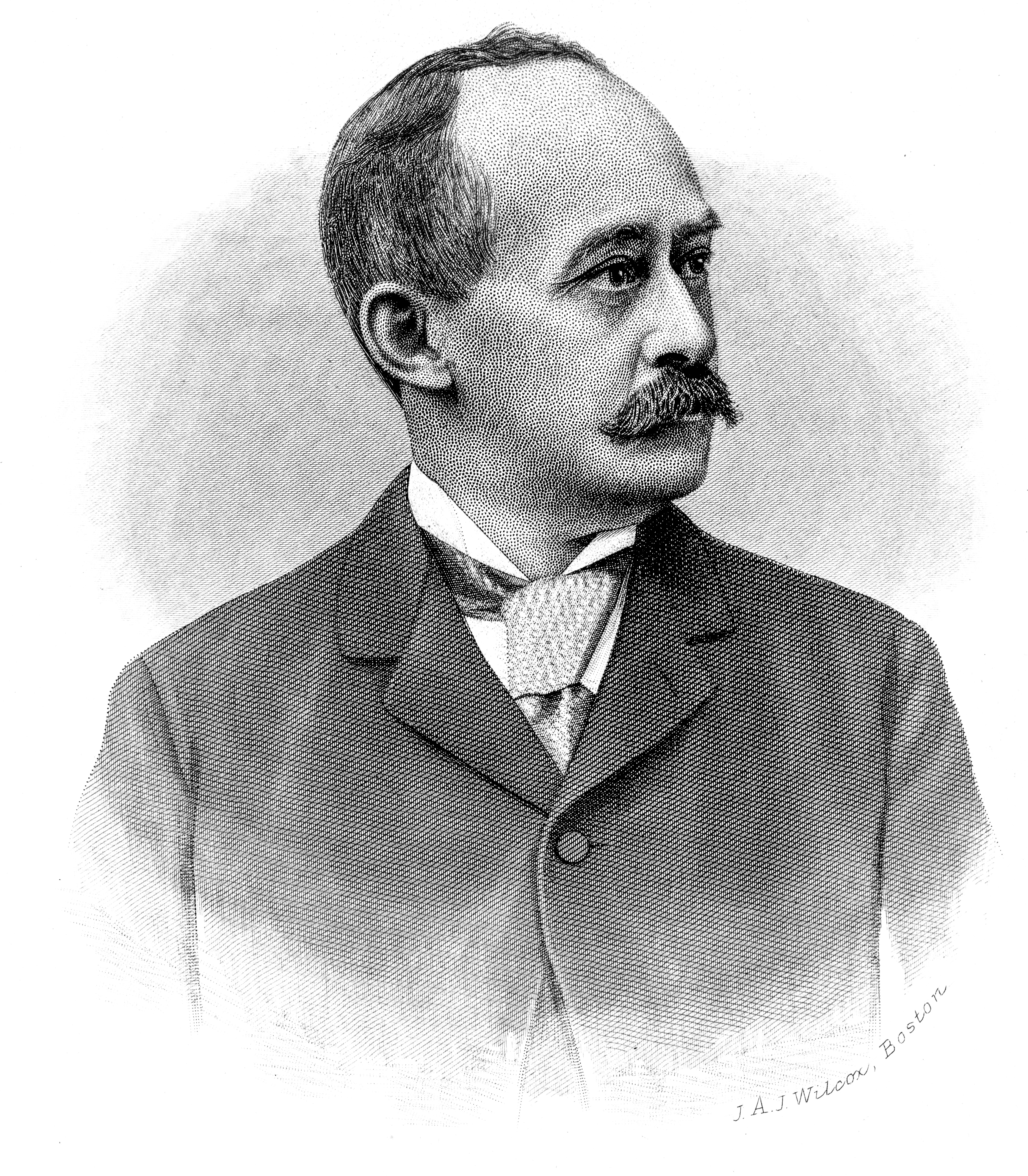 Albert H. Overman, bicycle manufacturer. Source: The New England States, their Constitutional, Judicial, Educational, Commercial, Professional, and Industrial History, by William T. Davies (1897)